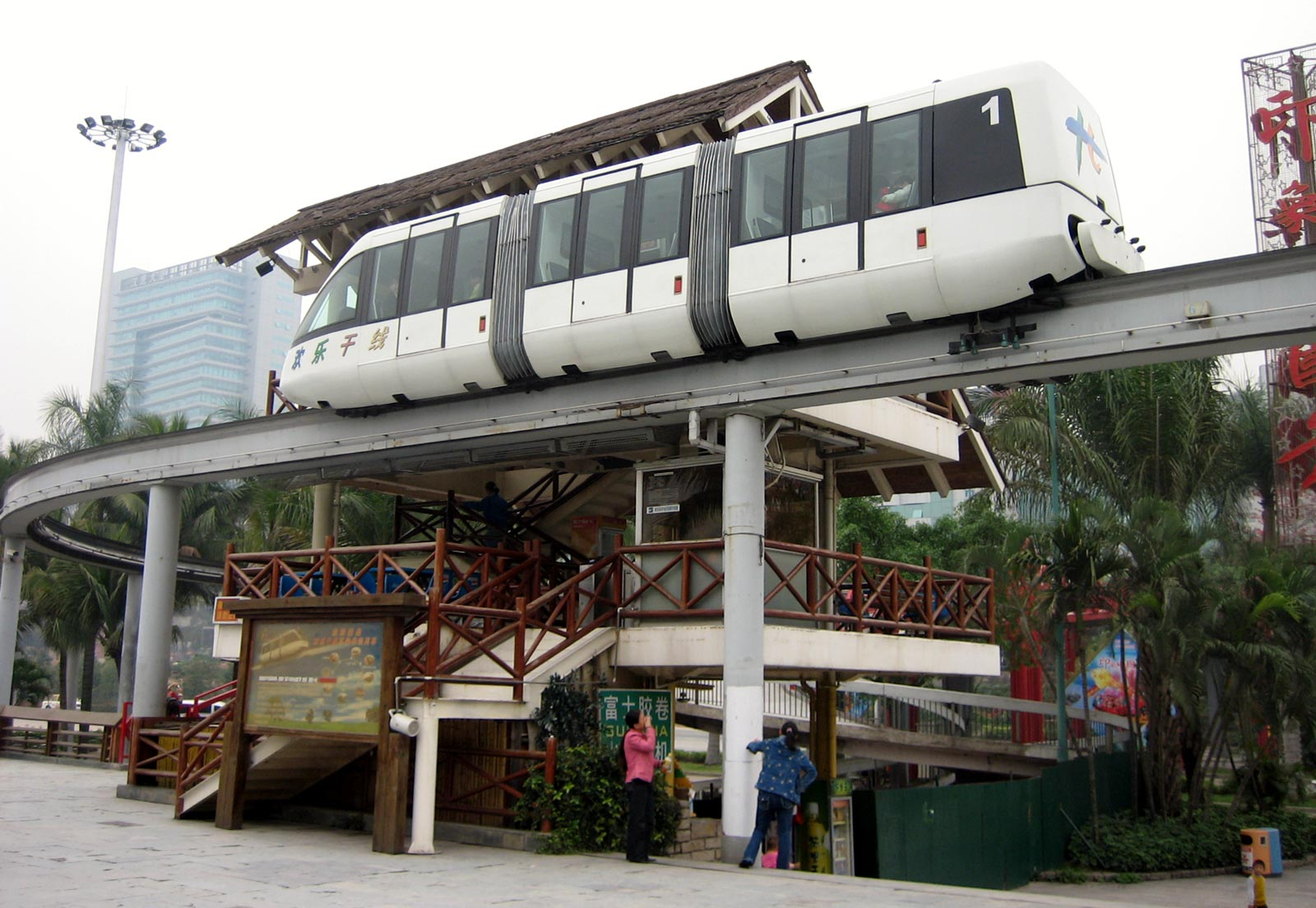 Happy Line Monorail in Shenzhen, China (made by Intamin) File downloaded from Flickr and modified, IMG_0547 Photo made by kmw7339 on March 14, 2006